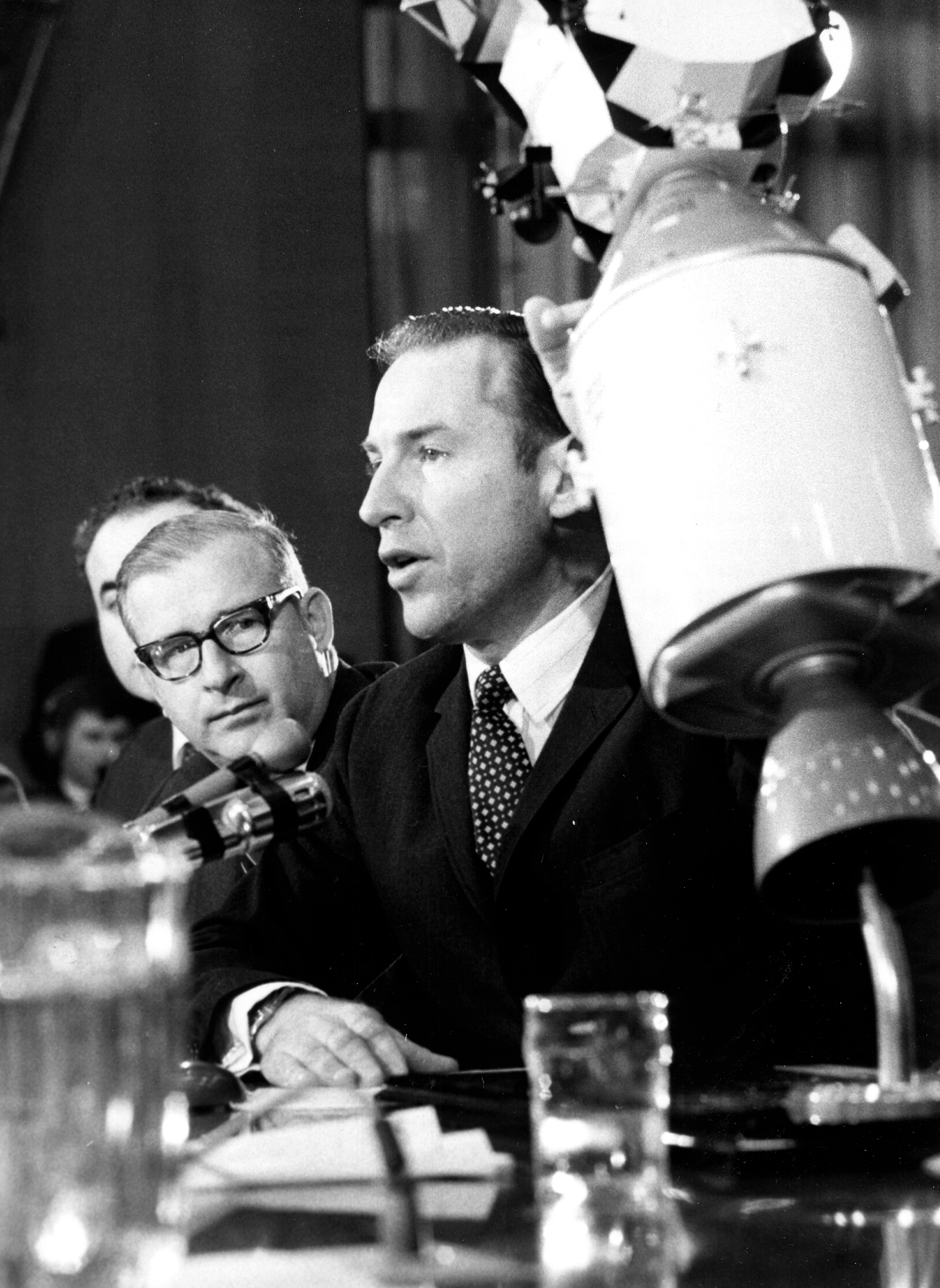 Astronaut James A. Lovell, Jr., Commander of the Apollo 13, relates to the members of the Senate Space Committee in an open session the problems of the Apollo 13 mission. In the background is Dr. Thomas O. Paine, NASA Administrator. Image # : 70-H-515